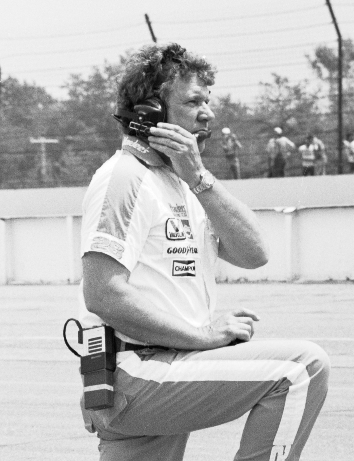 NASCAR crew chief Waddell Wilson. He was the winning crew chief for the Daytona 500 in 1980, 1983, and 1984. Photos By Ted Van Pelt